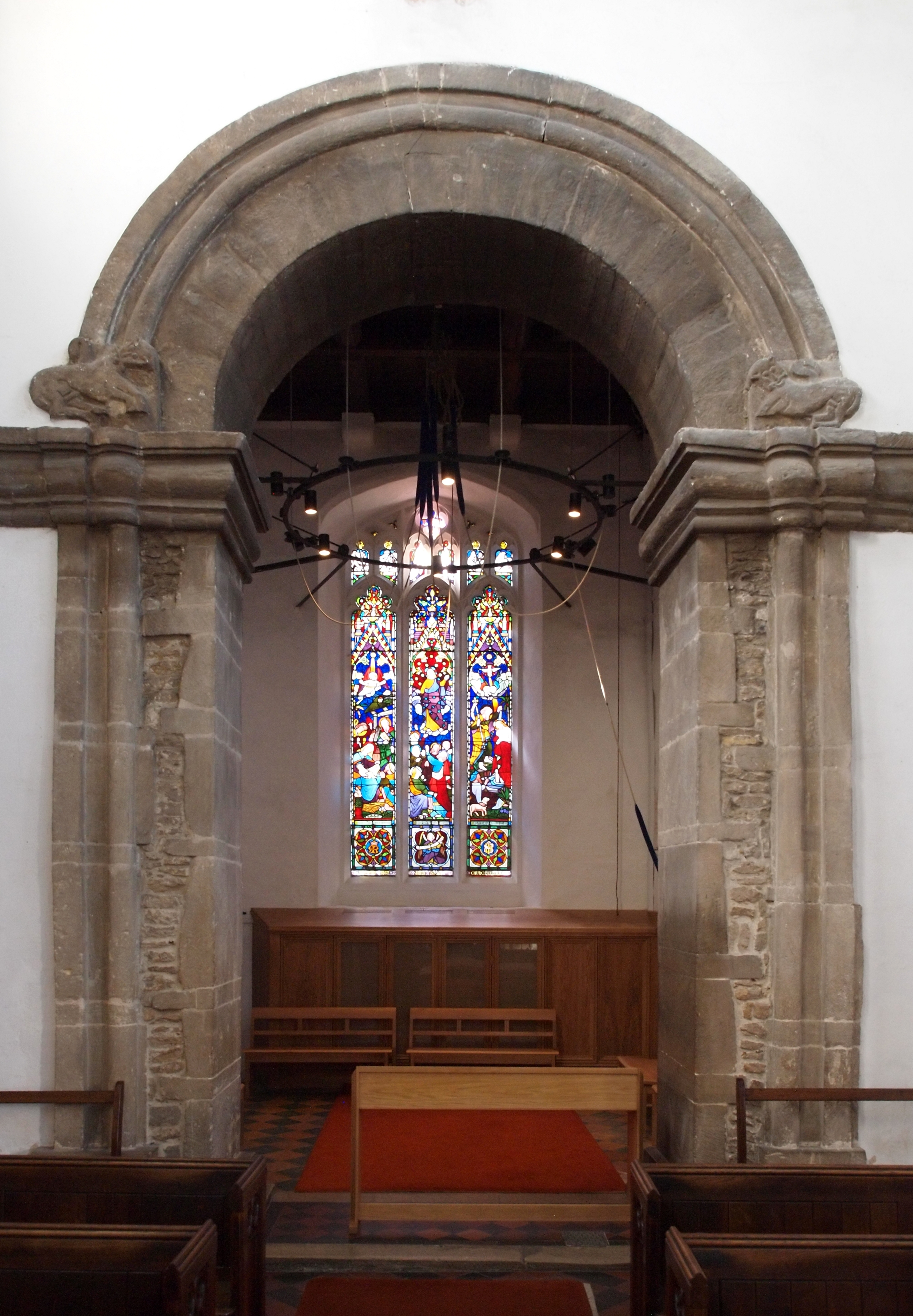 Tower arch inside St Bene't's Church Cambridge (constructed c. 1000-1050).